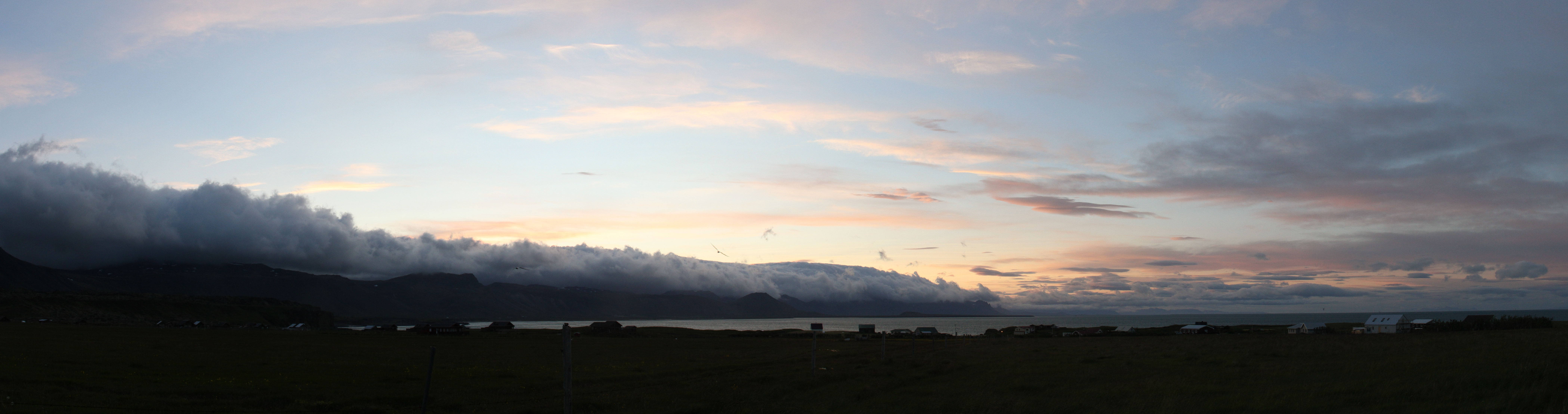 Arnarstapi at dawn.